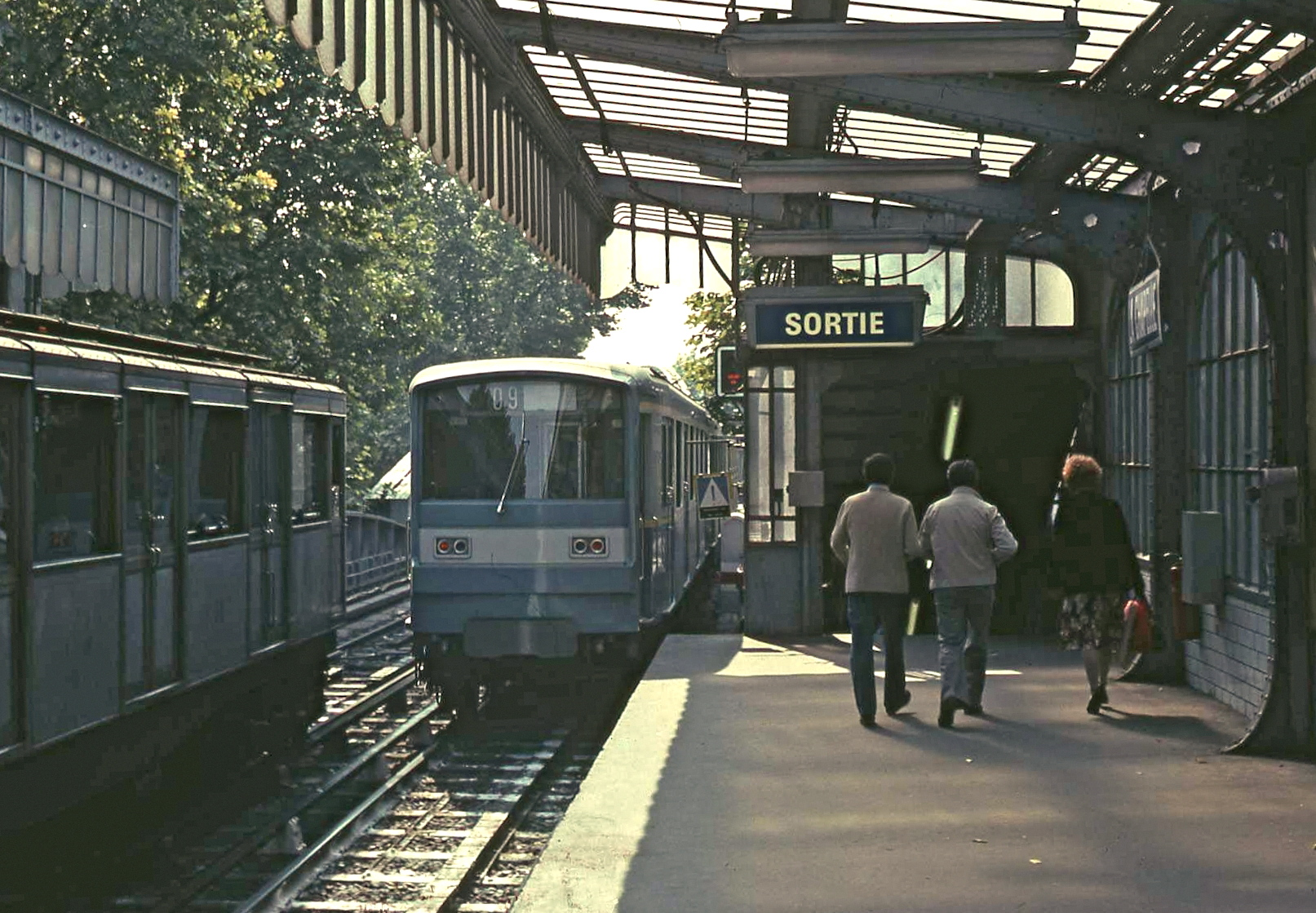 A Spraque metro and "newer" metro crossing each other in La Chapelle (line 2)